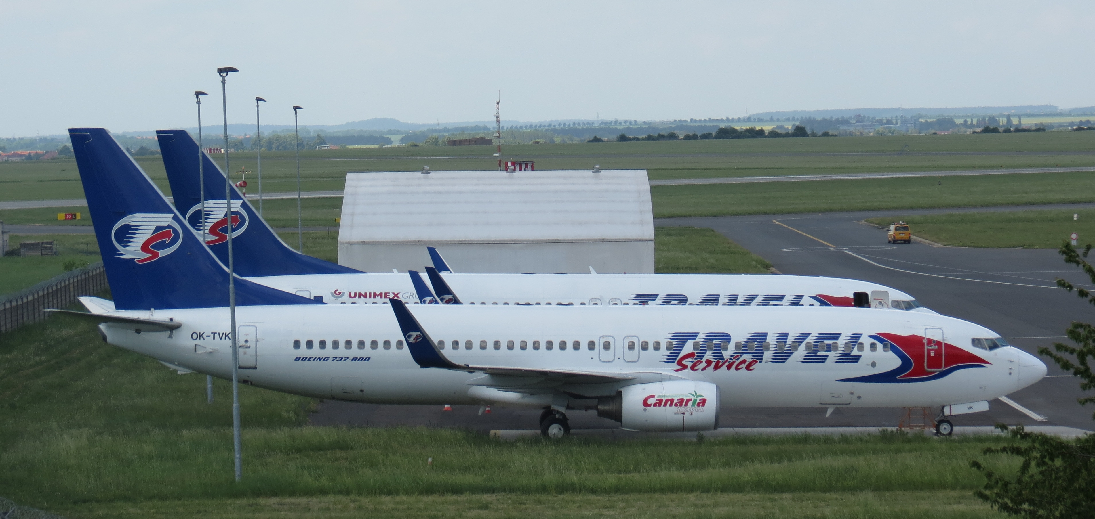 Travel Service Prag Ruzyne (Letiště Praha-Ruzyně) Terminal 3 Boeing 737-800